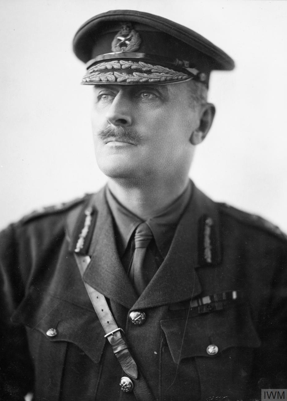 Field Marshal Viscount Edmund Allenby after Jerusalem conquer